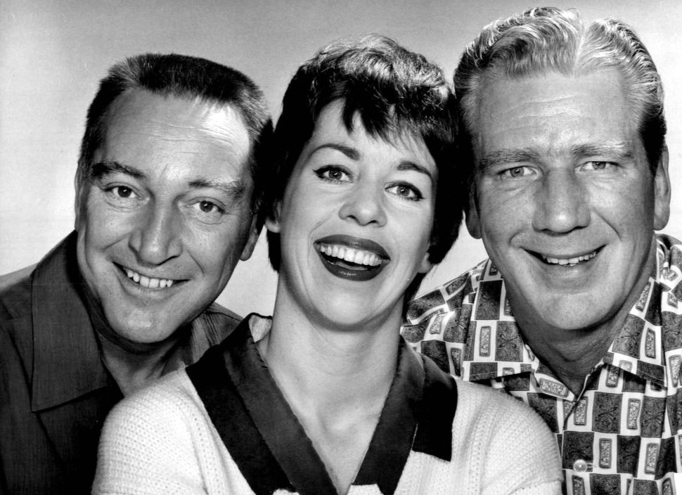 Cast photo from the television program The Garry Moore Show. From left-Garry Moore, Carol Burnett, Durward Kirby.